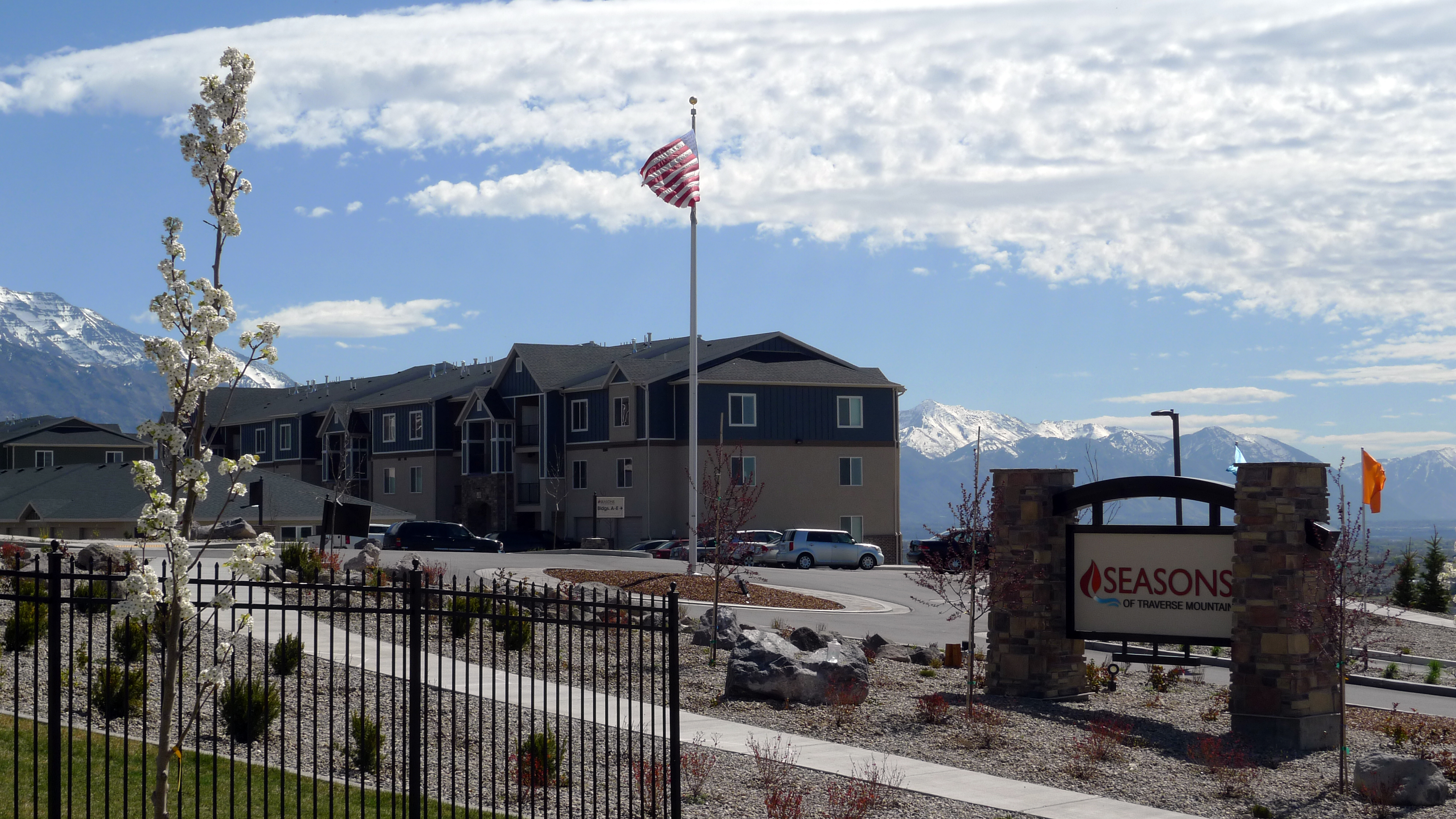 Lehi Utah Seasons of Traverse photo D Ramey Logan